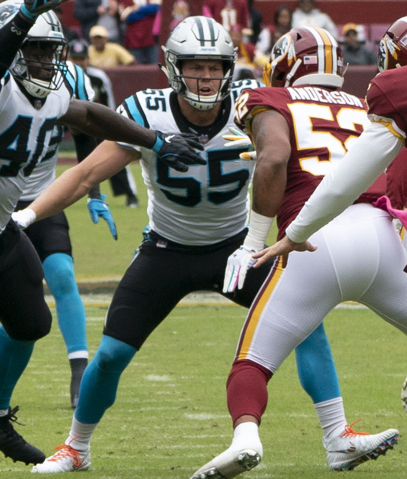 Tress Way of the Washington Redskins punts to the Carolina Panthers during a 2018 game at FedEx Field